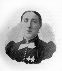 photogaph of nurse Kate Marsden (1859-1931)